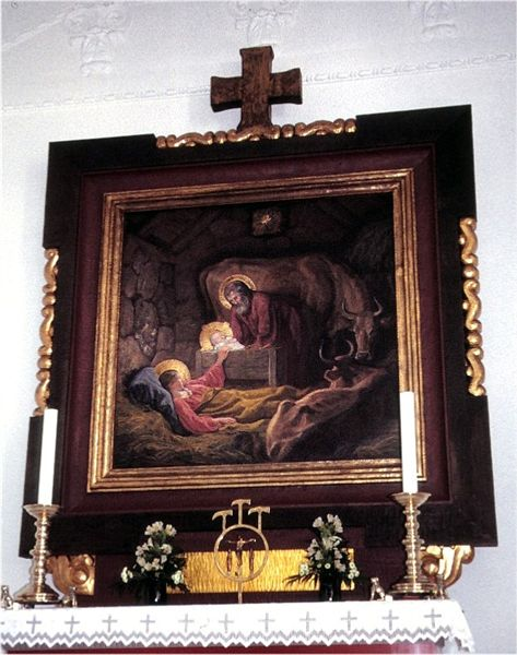 Skagen Kirke (church) in Frederikshavn Kommune. Altar by Joakim Skovgaard.